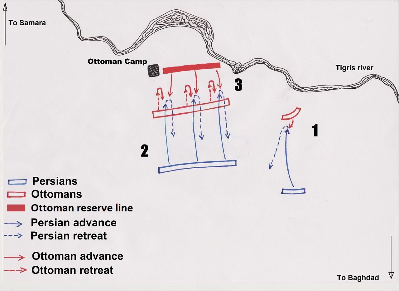 656fgfdhhfg